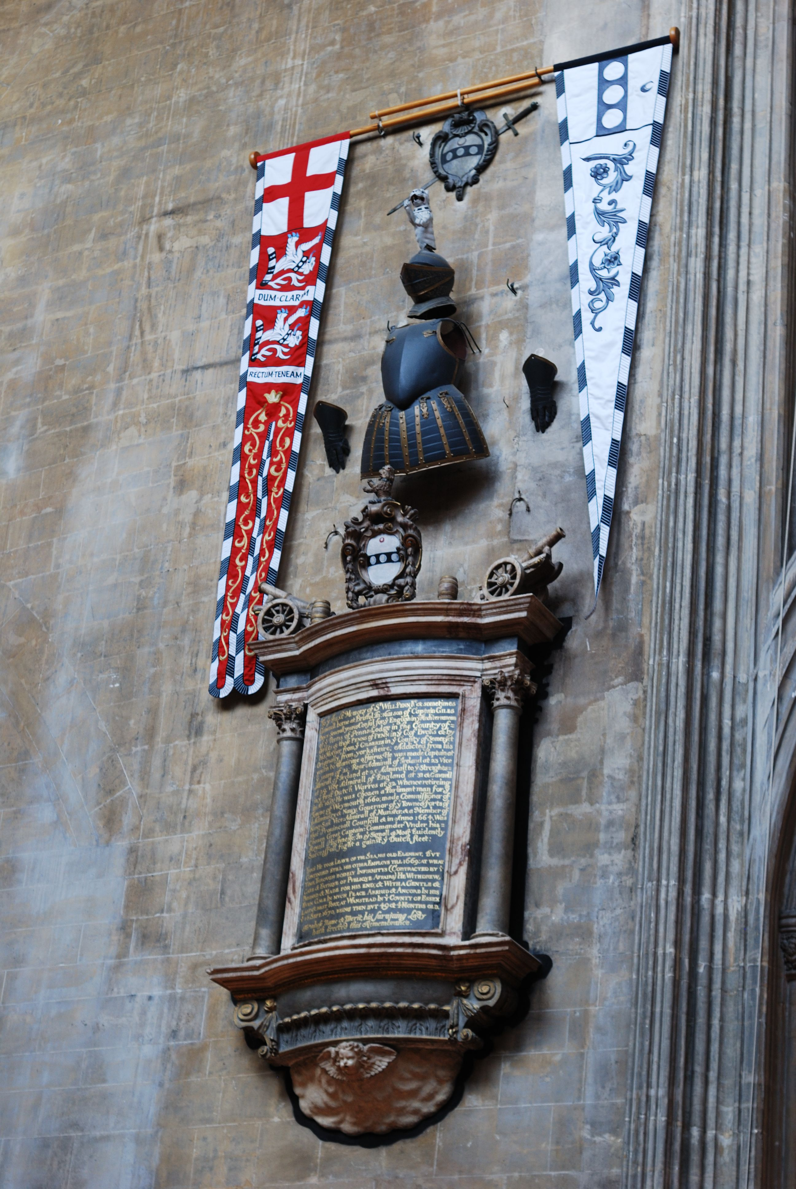 Monument and half-armour of Admiral Sir William Penn (died 1670) in the parish church of St Mary Redcliffe, Bristol, England Monument to William Penn in St Mary Redcliffe